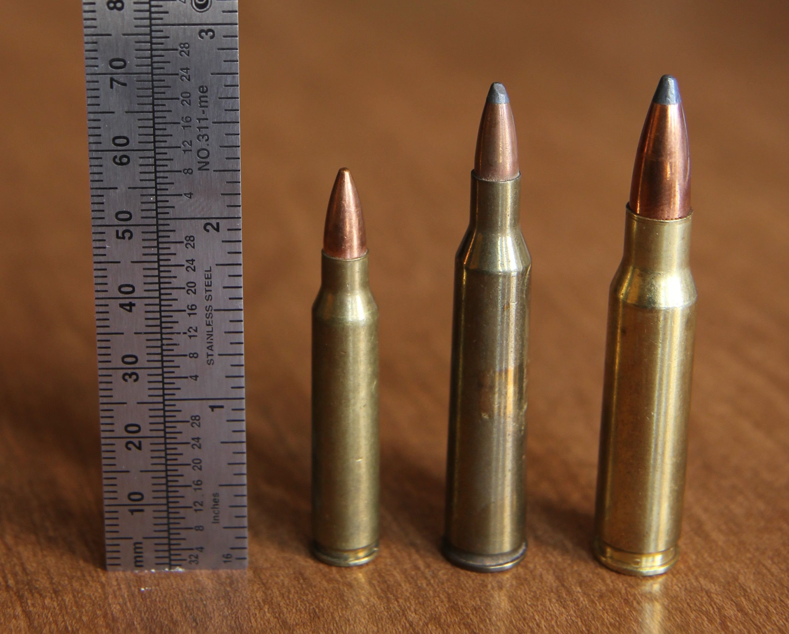 A .220 Swift cartridge next to a metric/imperial ruler with .223 Remington and .308 Winchester cartridges for comparison.